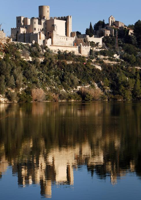 Vista general del Castell de Castellet, a l'Alt Penedès